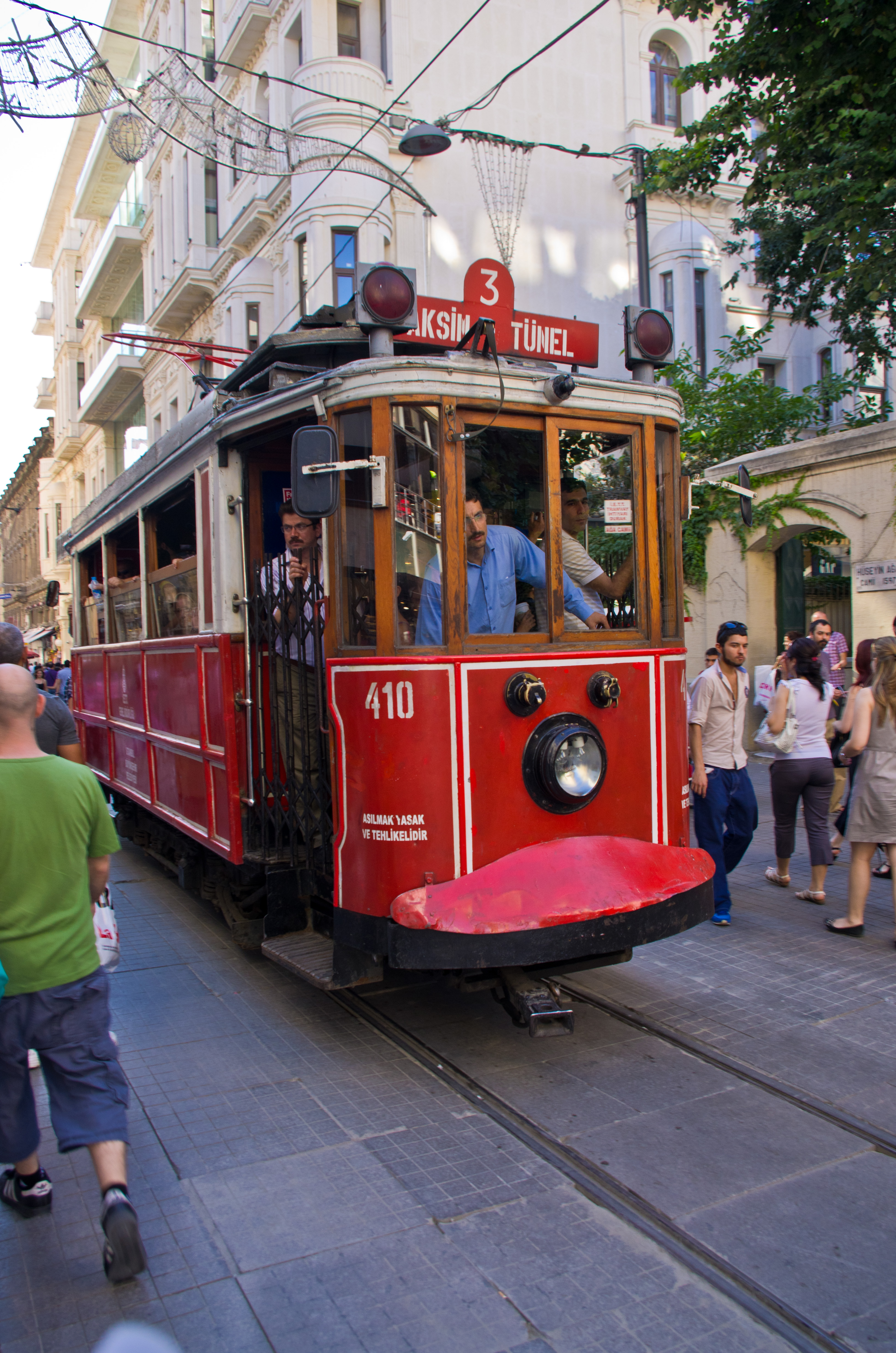 Historic tram on İstiklal Avenue in Istanbul